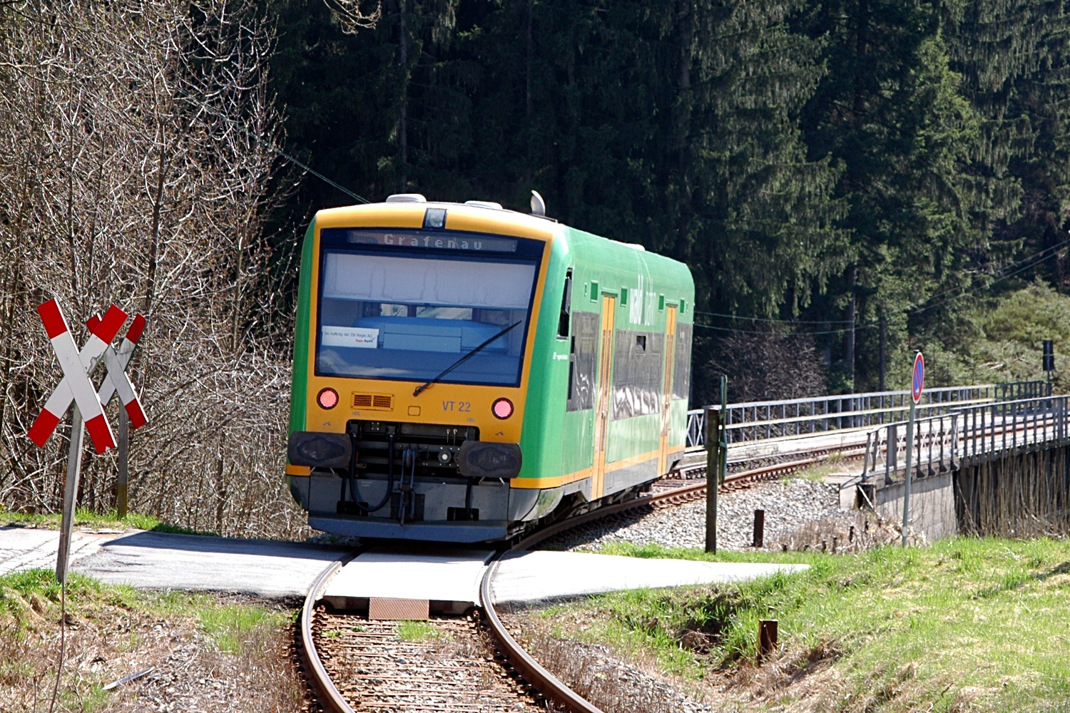 Diesel railcar VT22 of the Waldbahn in front of the Ohe creek bridge at the periphery of Spiegelau, Germany.